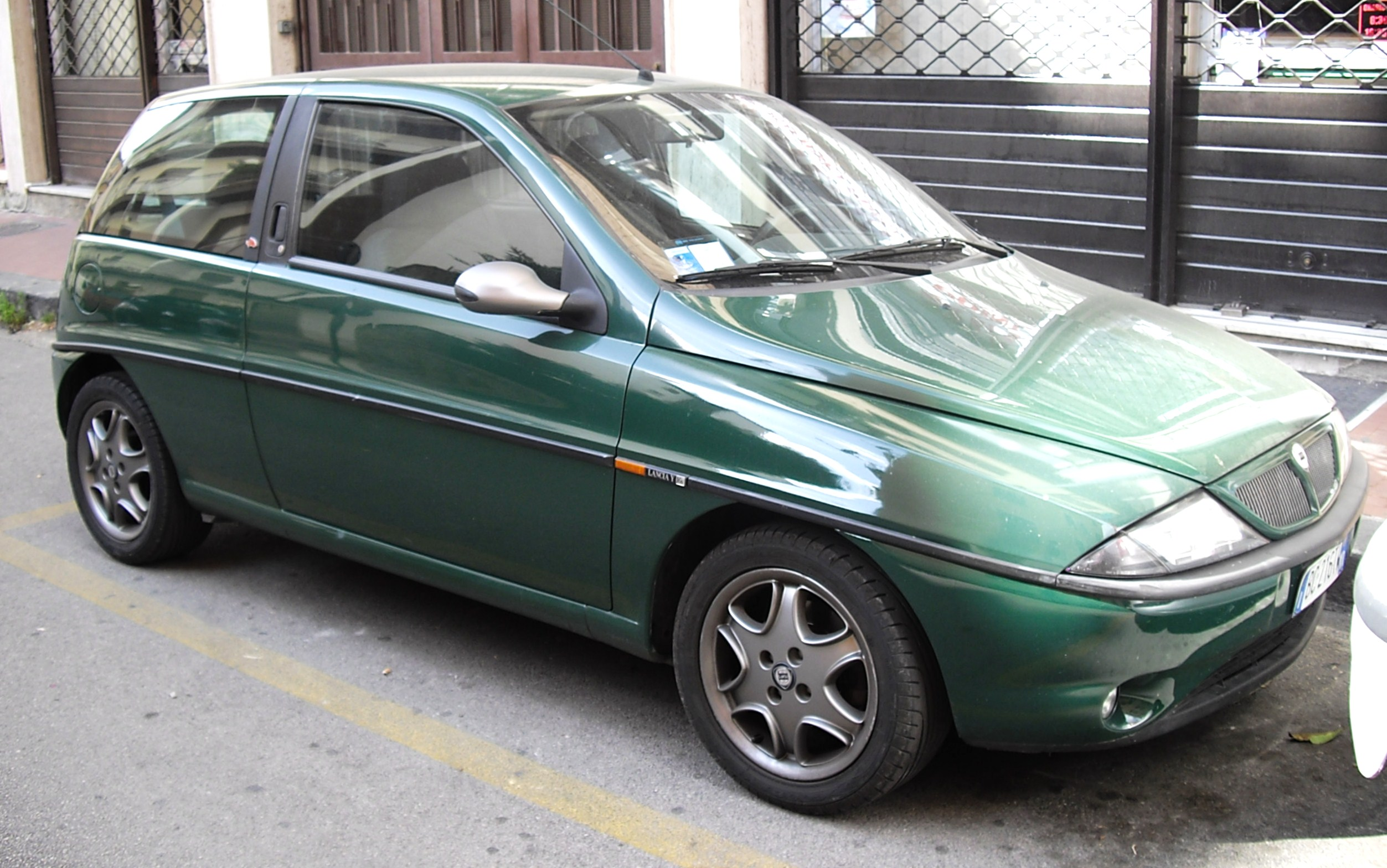 Lancia Y Elefantino Rosso 16V front